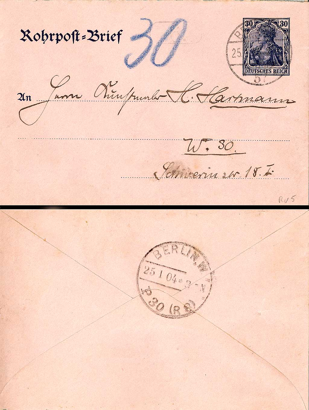 Postal stationary - Pneumatic tube letter from Berlin, Michel-No. RU5 "Deutschen Reich", 1902